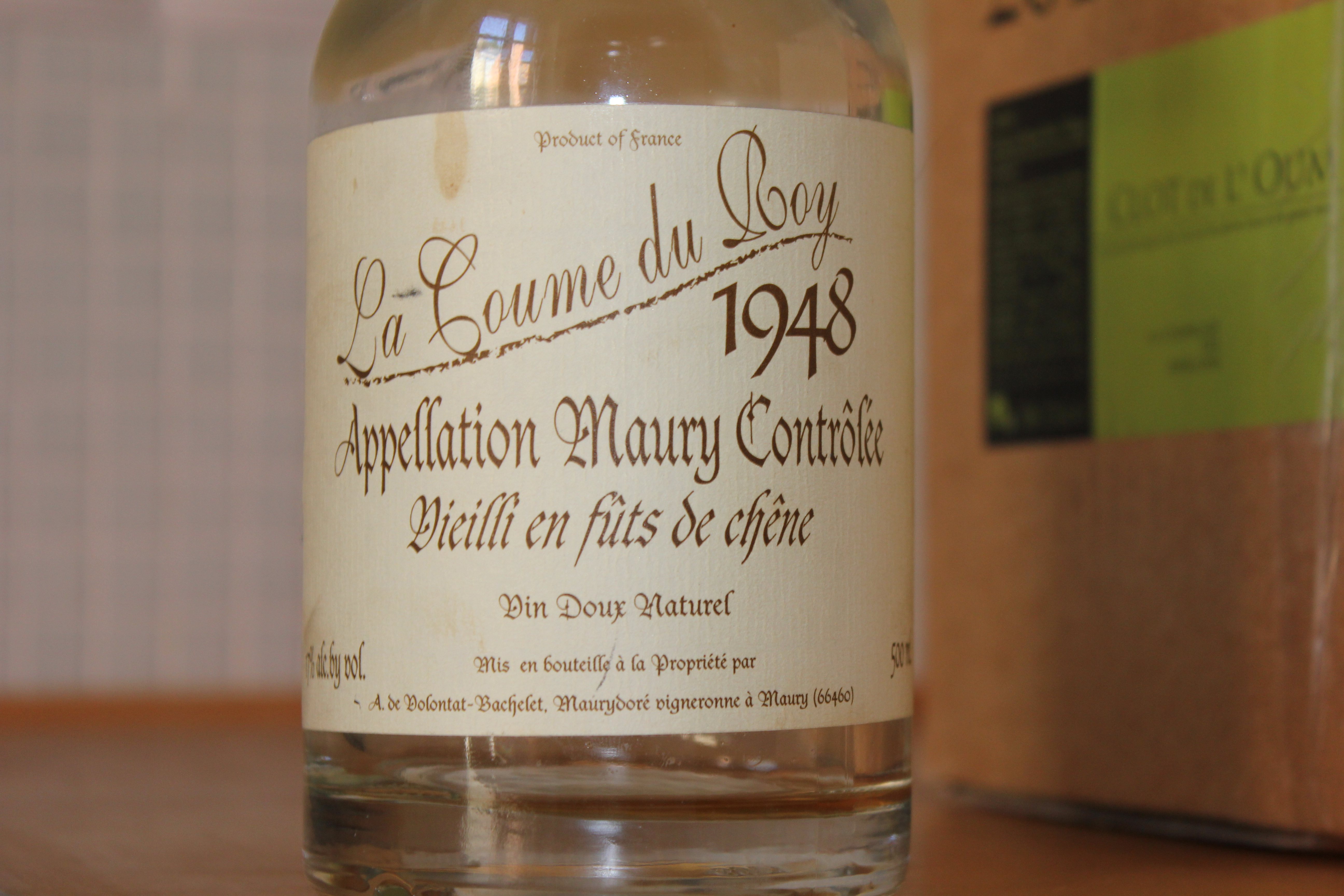 A bottle of Vin doux naturel wine from the French wine region of Maury AOC in the Languedoc-Roussillon wine region.